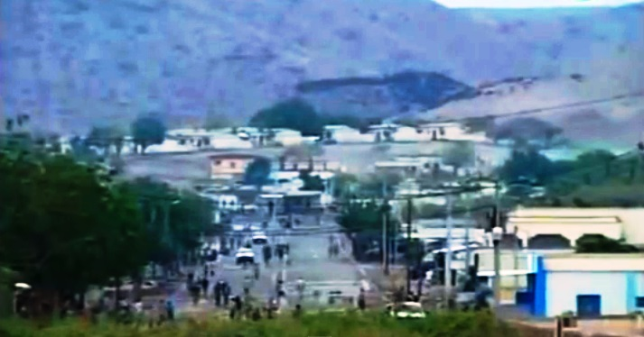 Central of Tadjoura 2007